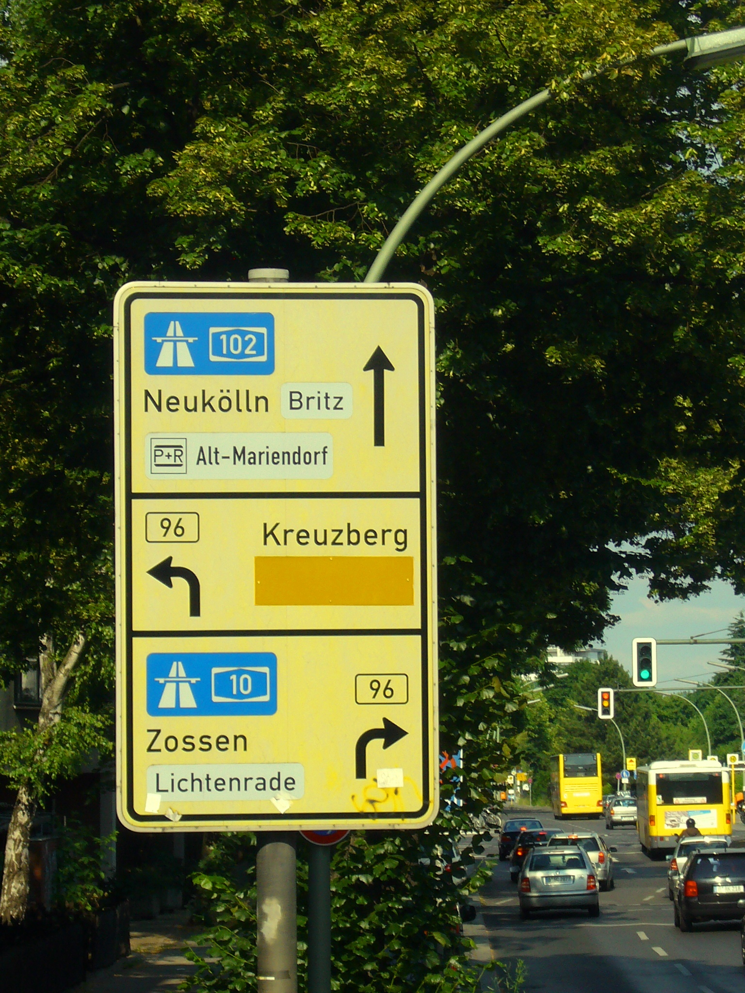 Combined direction road sign for German Federal Motorways 102 and 10 and the Federal Highway 96 in Berlin, Mariendorf